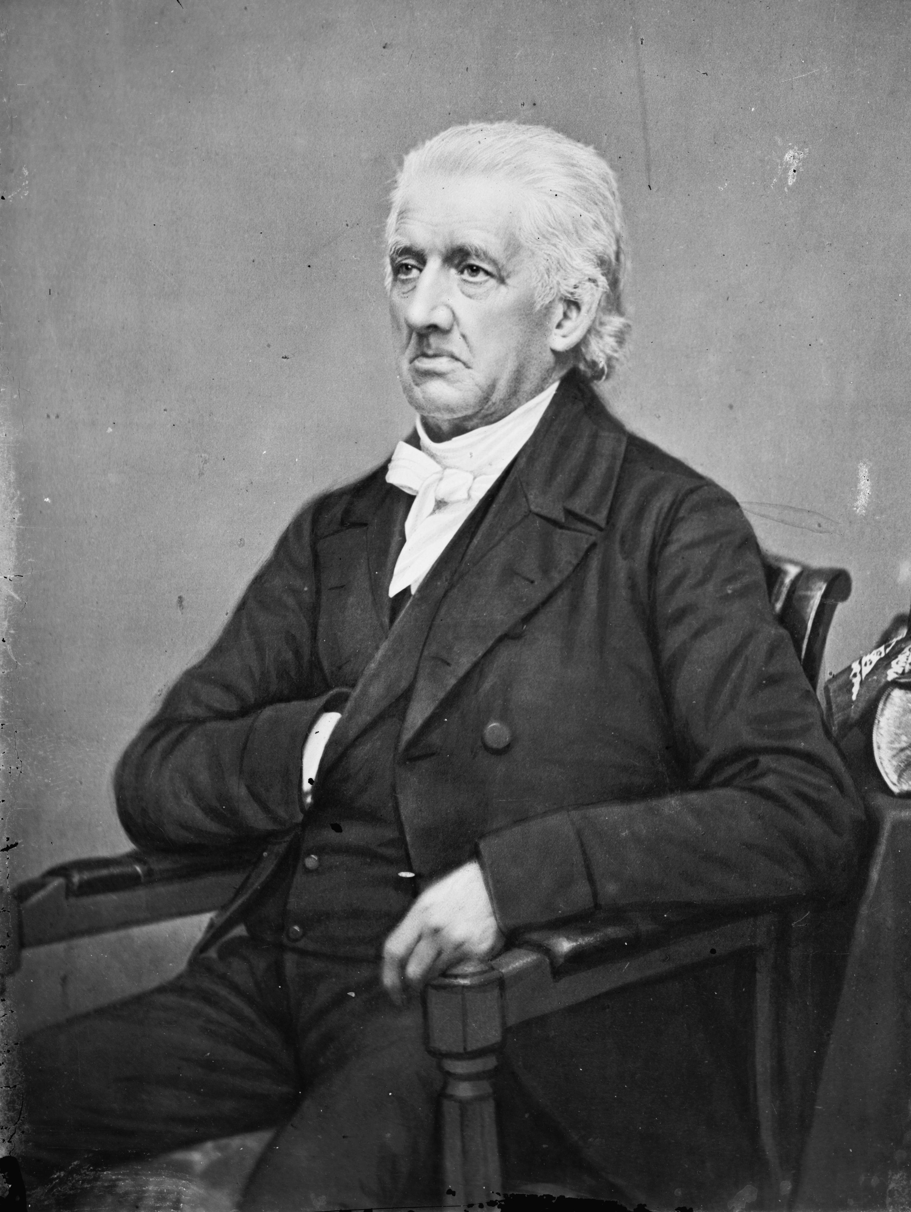 Lyman Beecher. Library of Congress description: "Rev. Lyman Beecher".